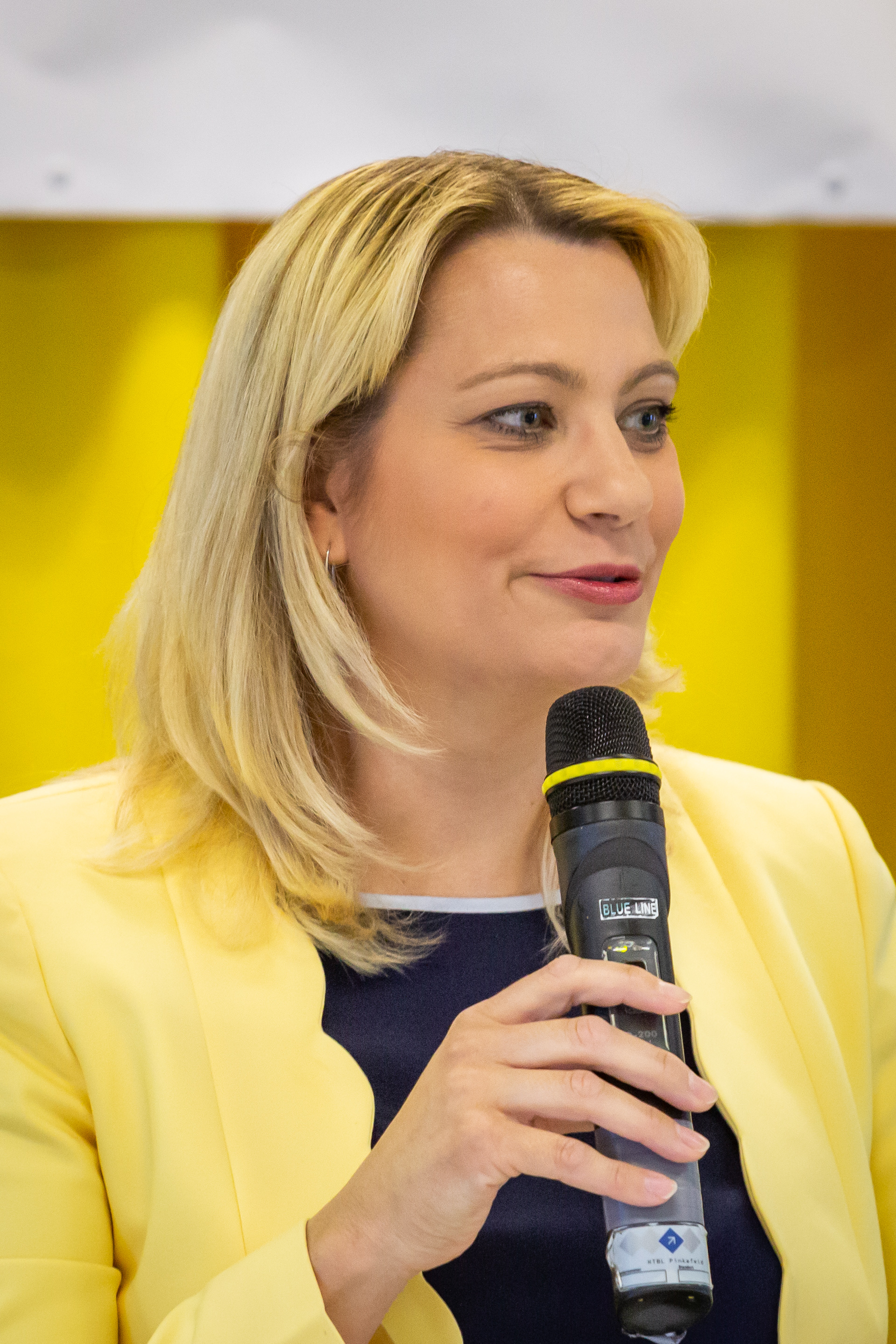 Daniela Winkler, Official of the administrative district Burgenland